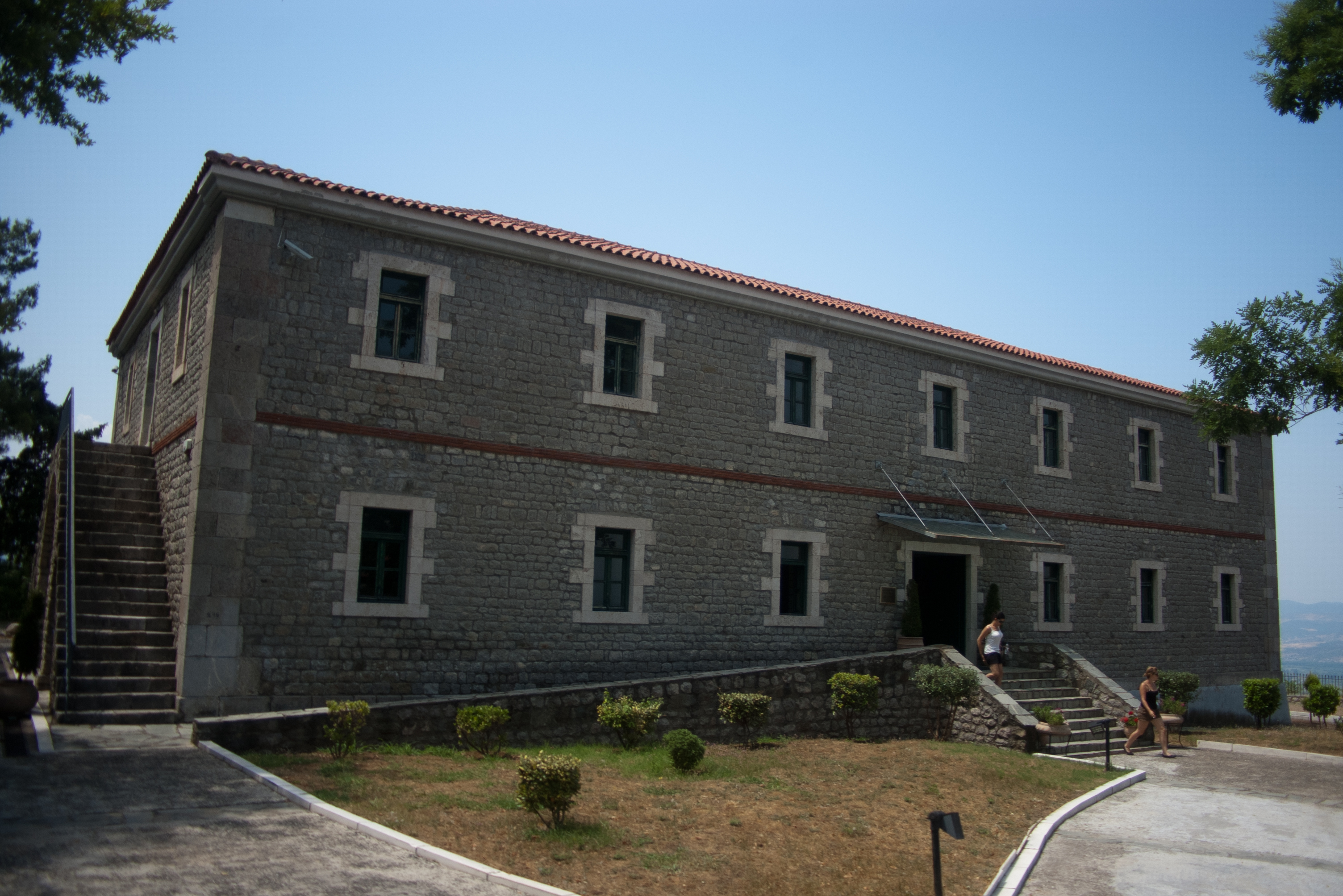 The former barracks of Ypati, Greece, built in 1836, now the regional museum of Byzantine archaeology.